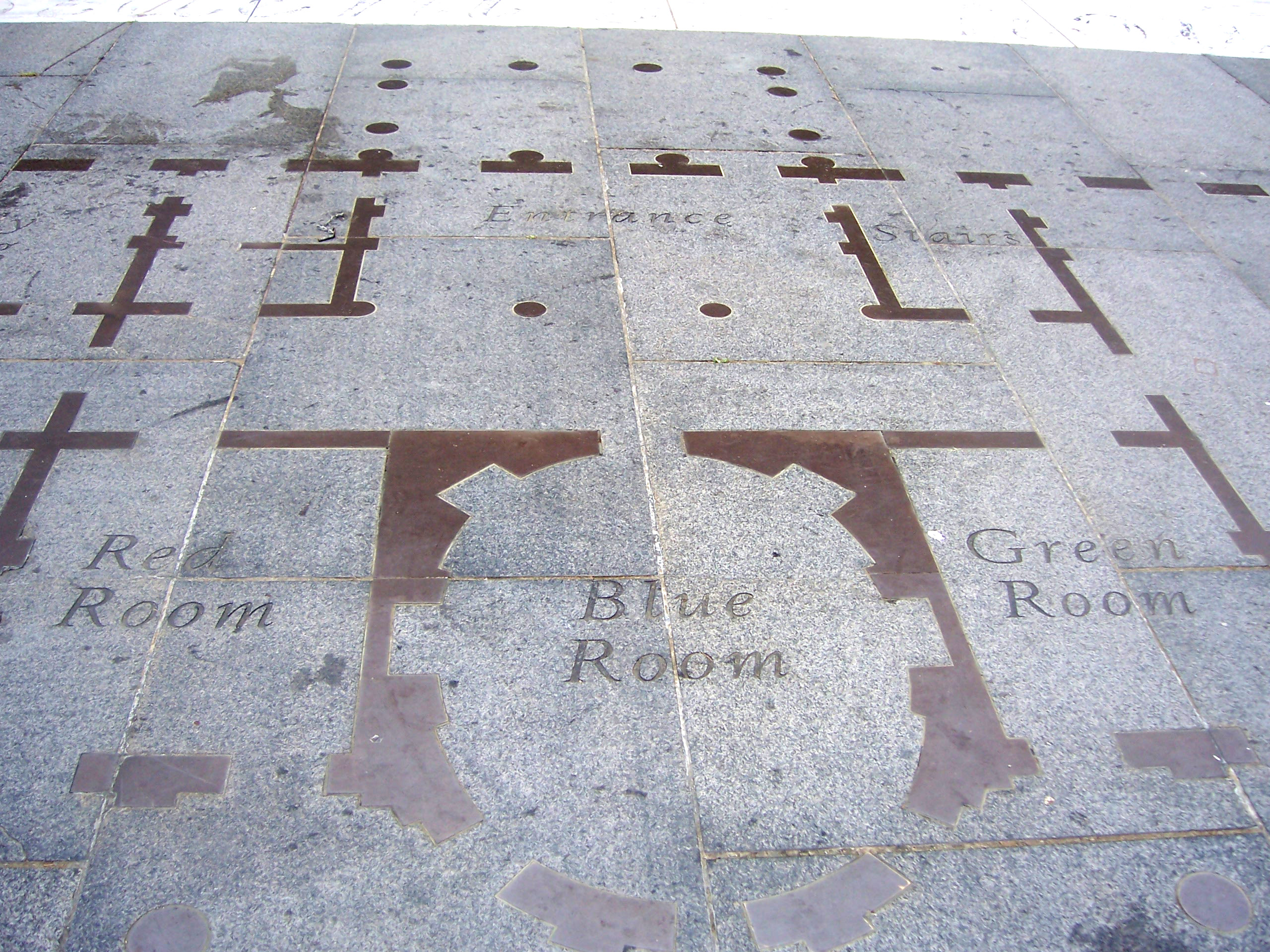 The whitehouse floorplan as shown in freedom plaza